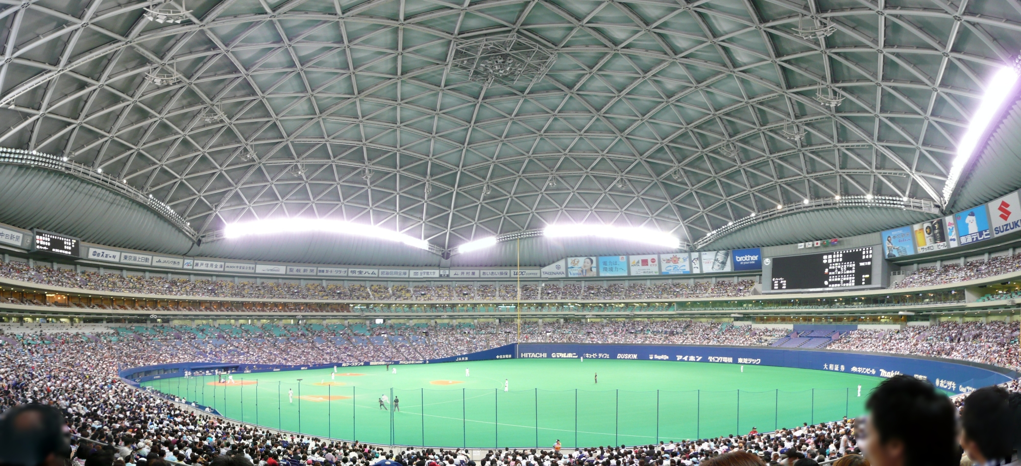 Panoramic of Nagoya Dome